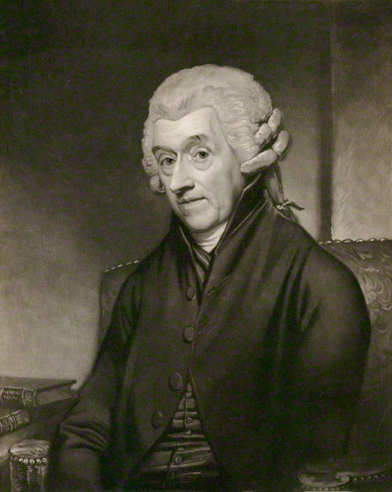 William Heberden (1710 – 17 May 1801)